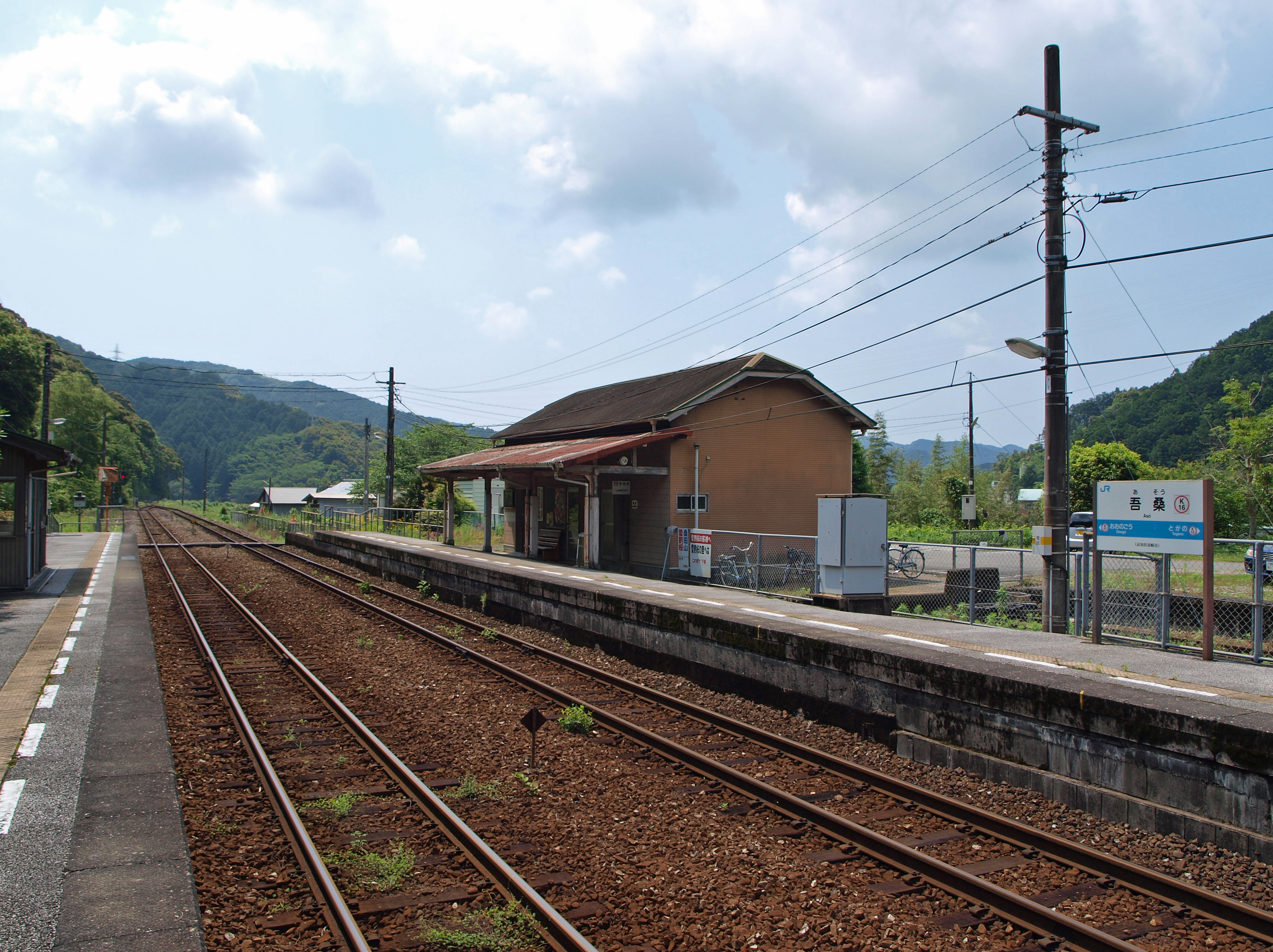 Asō station, Dosan-line, JR Shikoku, Japan